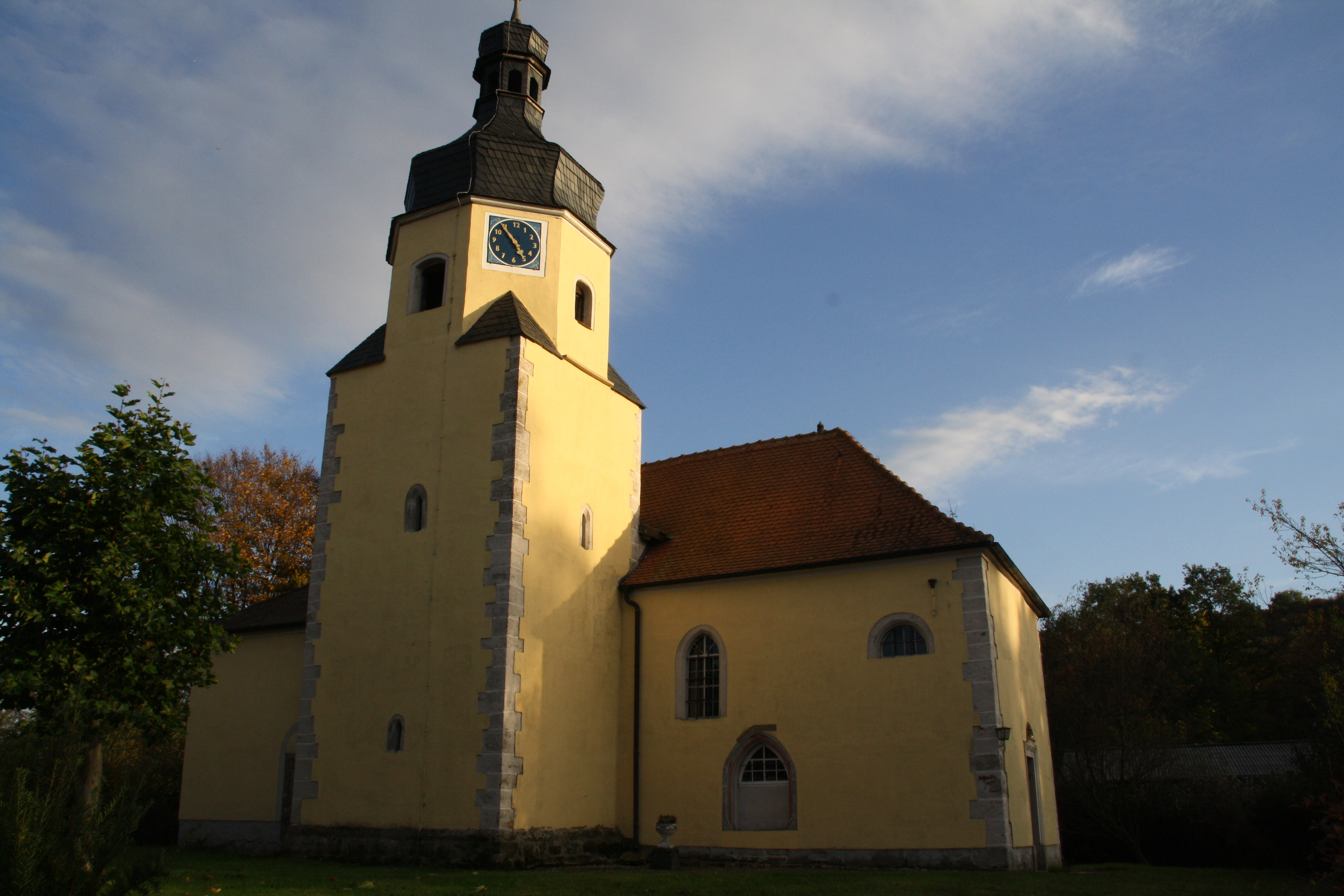 Church in Löbitz